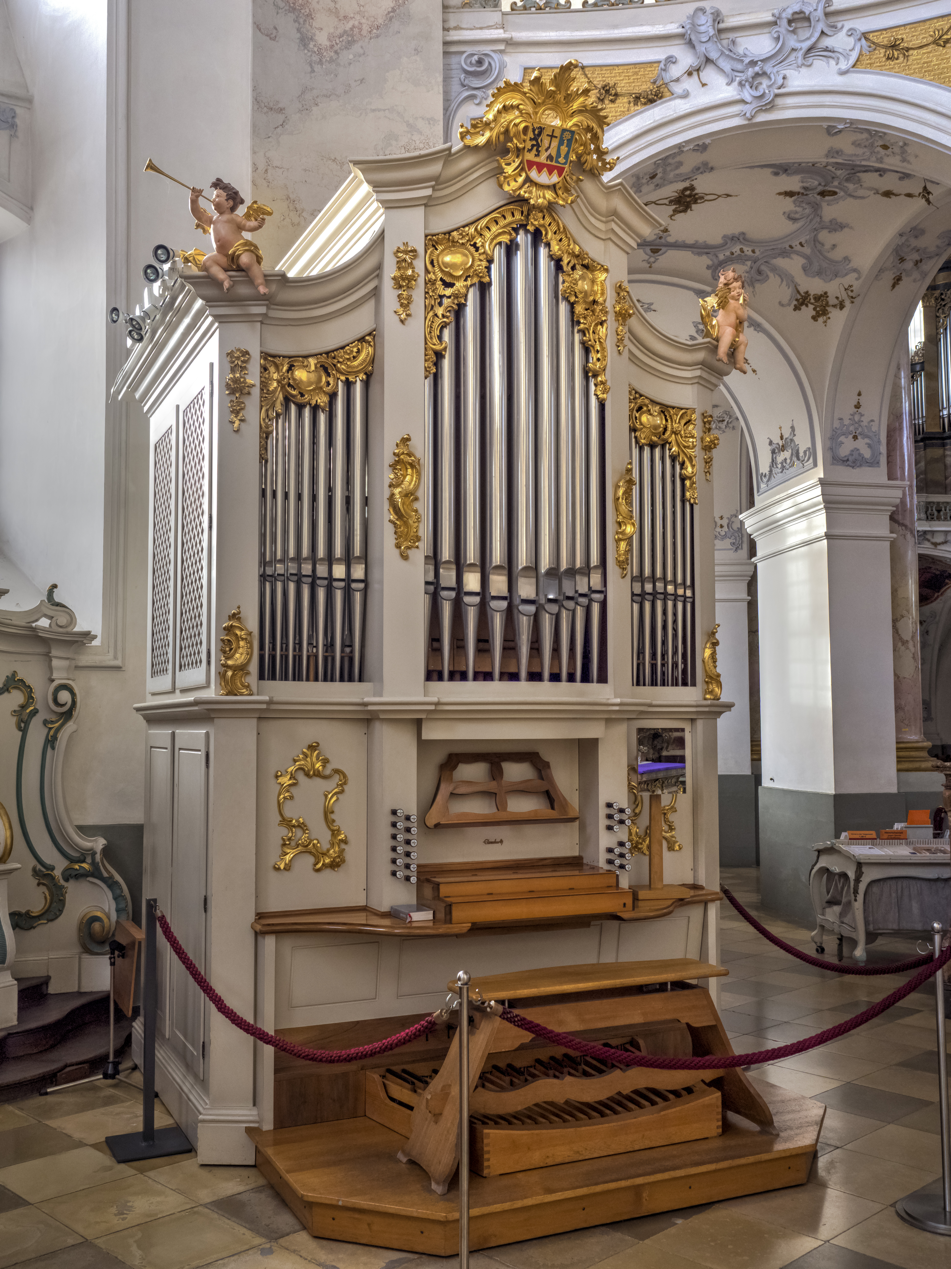 Pipe organ in the Basilica Vierzehnheiligen